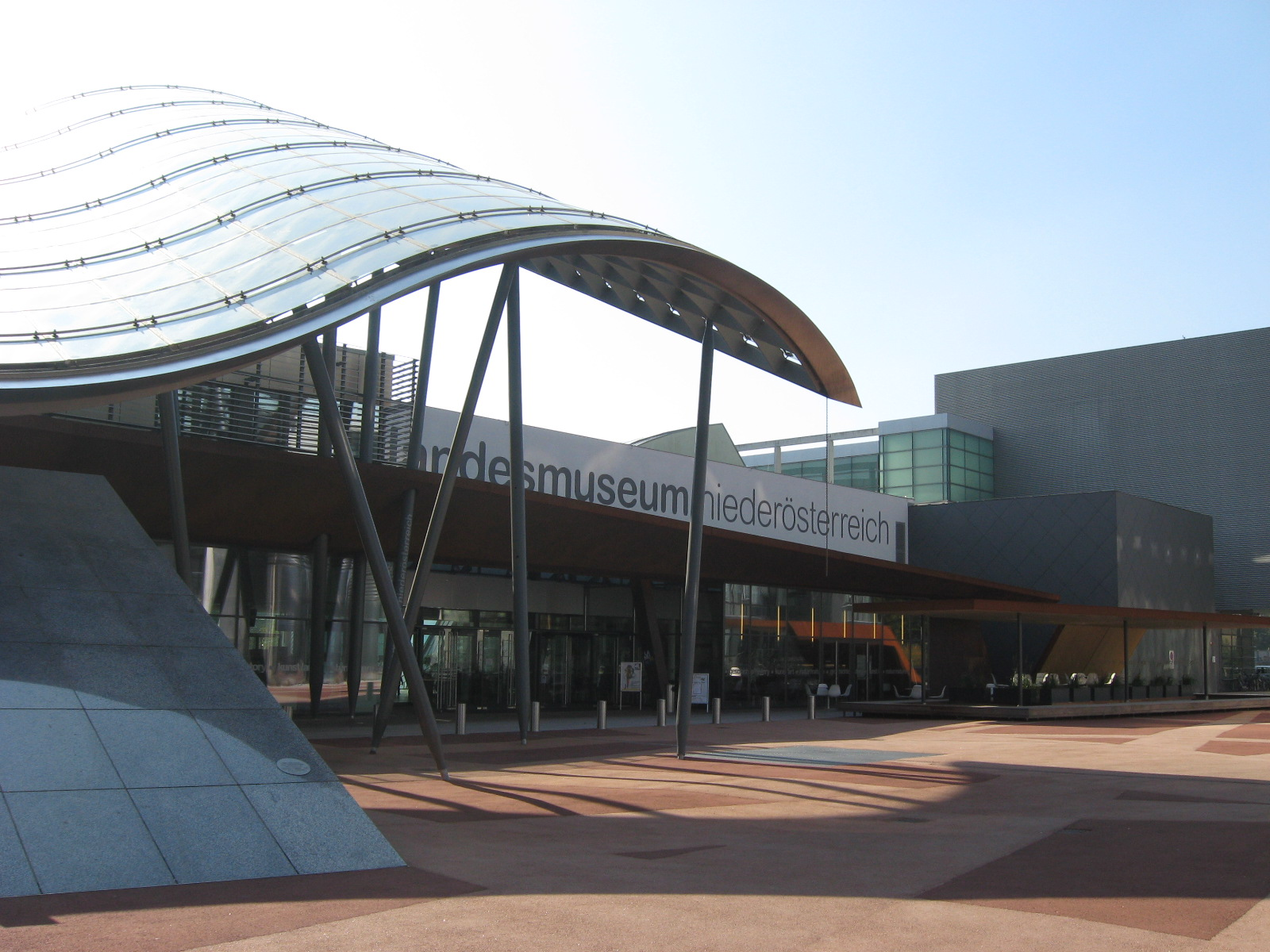 The museum of Lower Austria in St. Pölten, Austria